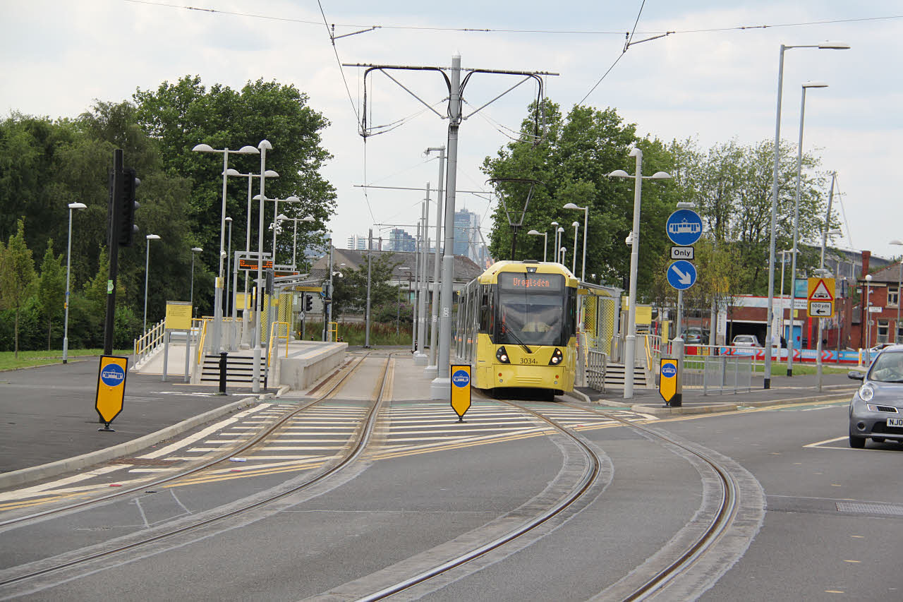 Clayton Hall tram stop. The tramway leaves the main road here to run through former industrial premises.